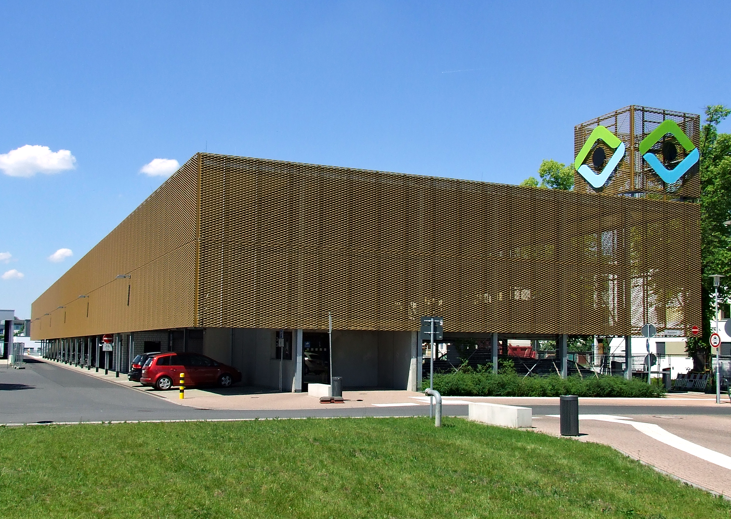 Newly-constructed parking garage of Carl-Thiem-Klinkium at Leipziger Straße in Cottbus-Spremberger Vorstadt.